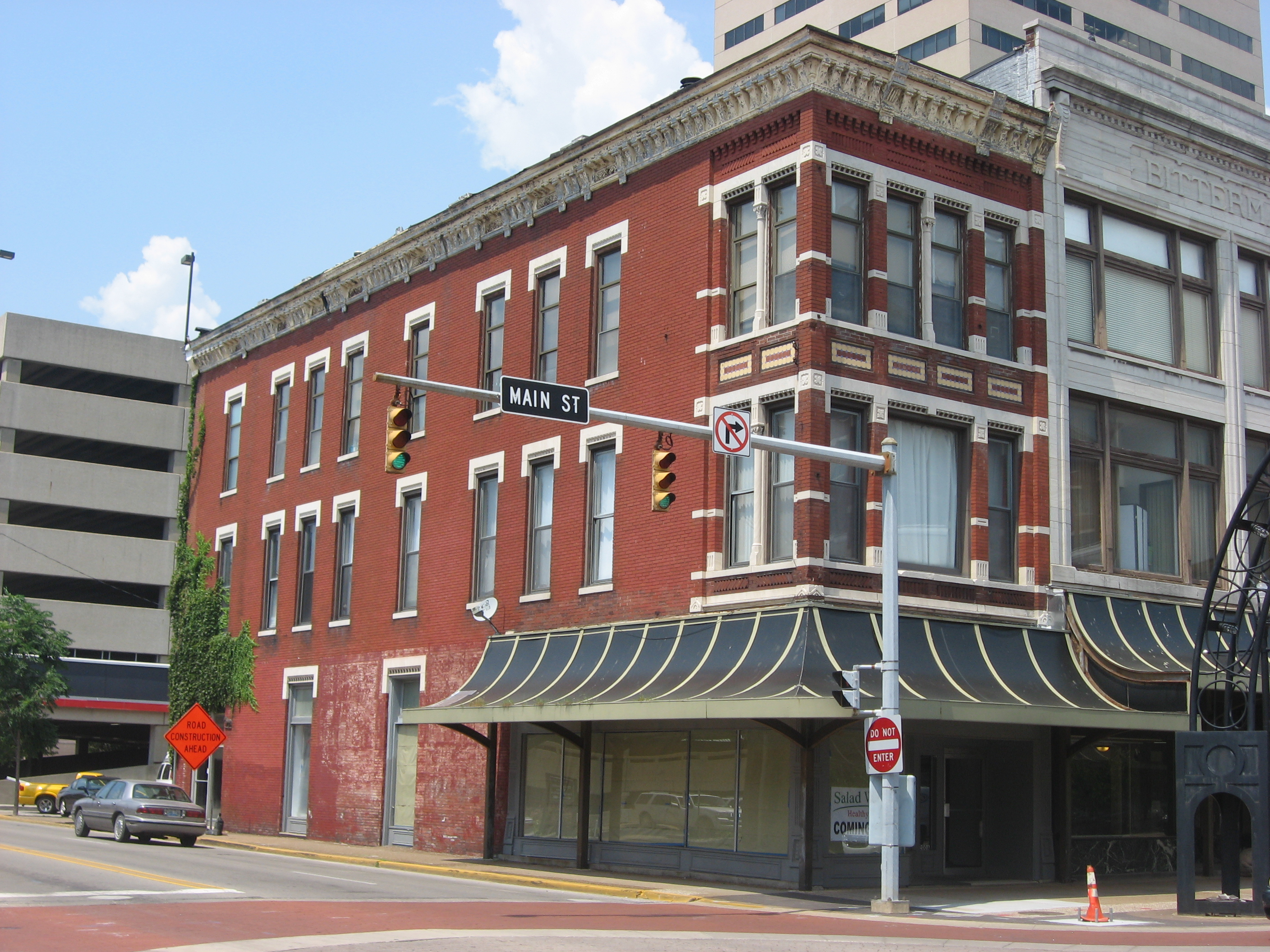 Front of the Old Bitterman Building, located at 200 Main Street in Evansville, Indiana, United States. Built in 1885, it is listed on the National Register of Historic Places.